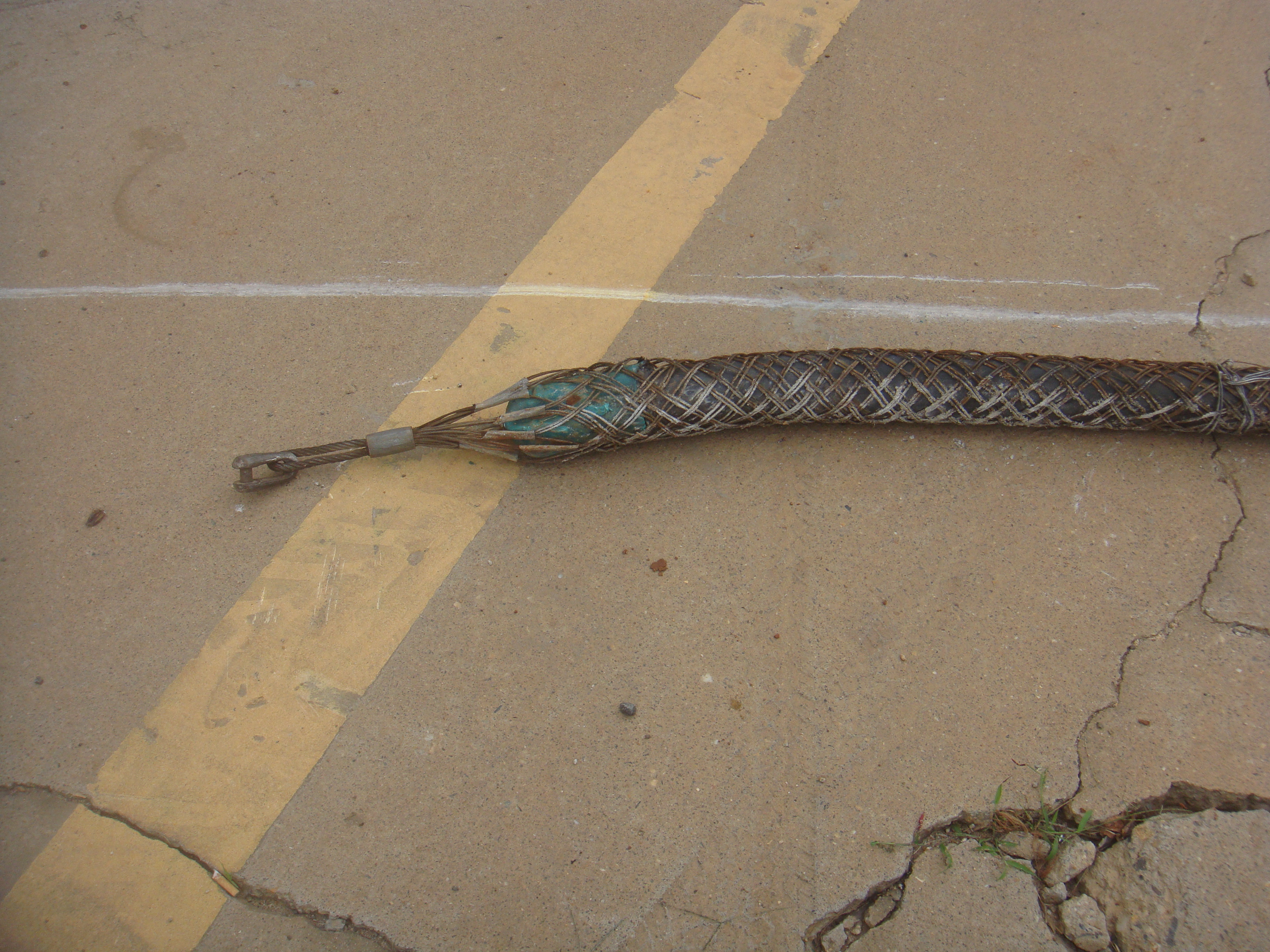 Towing sock. A device similar to a Chinese finger trap to seize a the end of a cable to thread it through a tube or tunnel, Haikou, Hainan, China